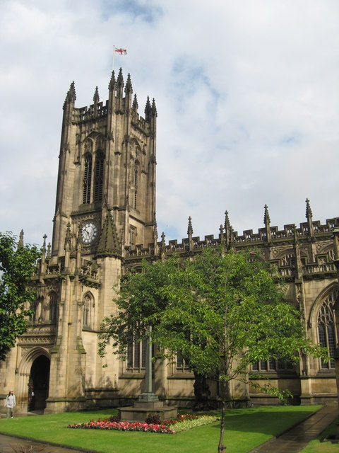 Manchester Cathedral Manchester Cathedral is located on Victoria Street in central Manchester. The cathedral's official name is The Cathedral and Collegiate Church of St Mary, St Denys and St George in Manchester. The current building began in 1215. with extensive rebuilding and refacing during the 1800s.